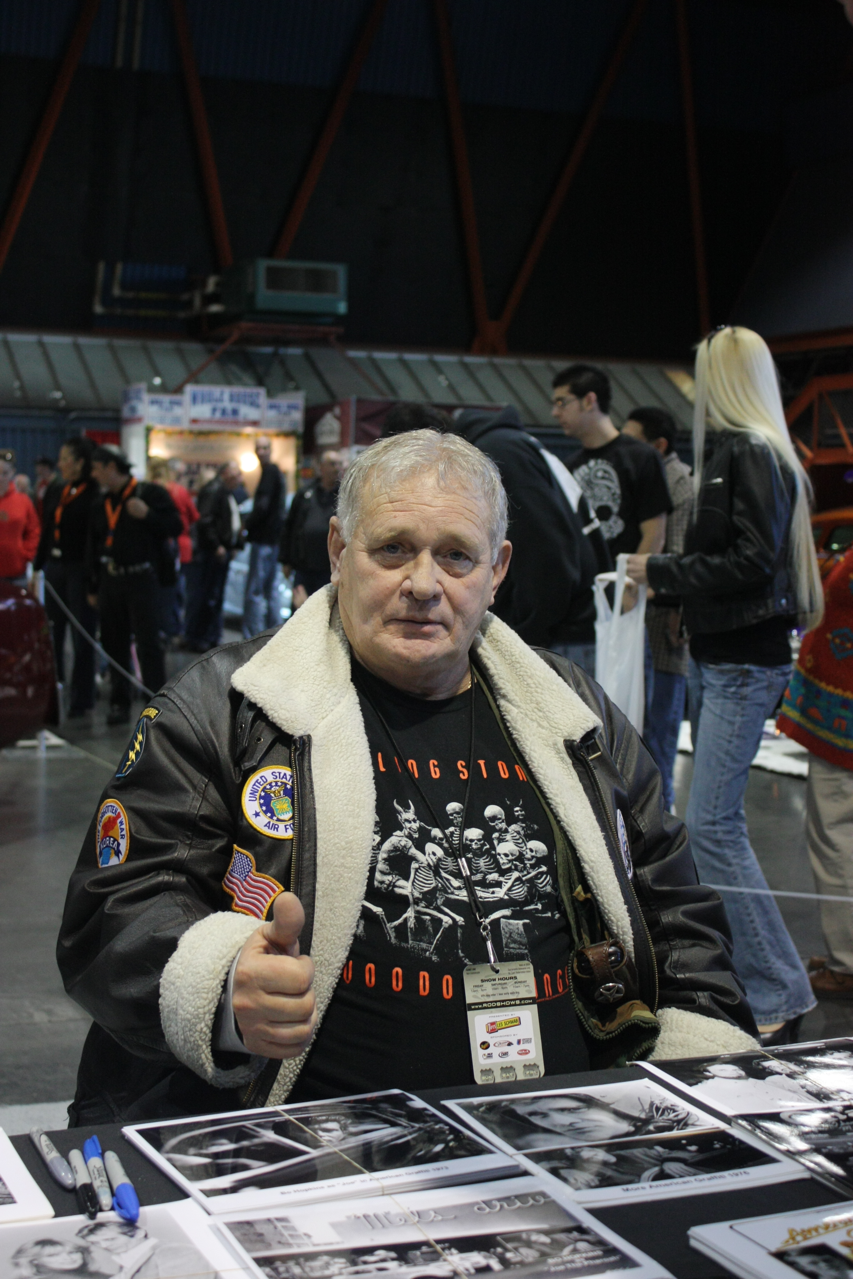 Bo Hopkins at the 2009 Sacramento Autorama